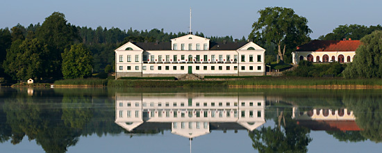 Blekhem mansion